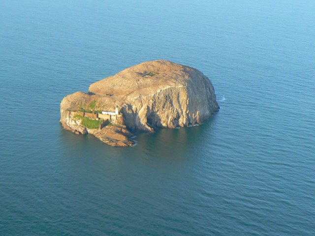 Bass Rock from the air Looking north west from about 800 feet above the Rock.